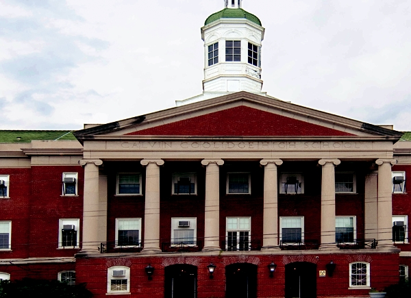 Coolidge High School, Washington, DC